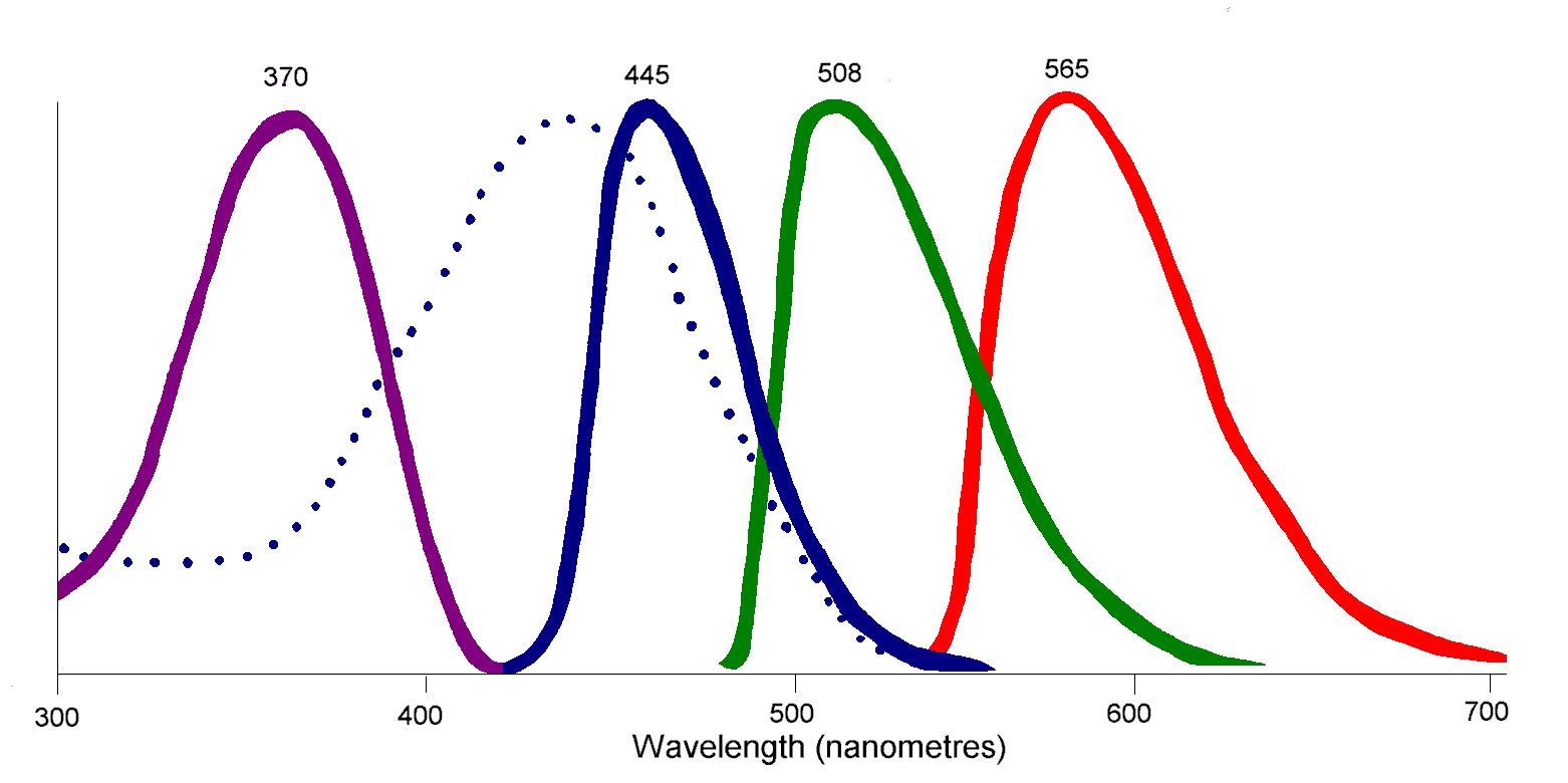 absorption spectrum of bird eye pigments